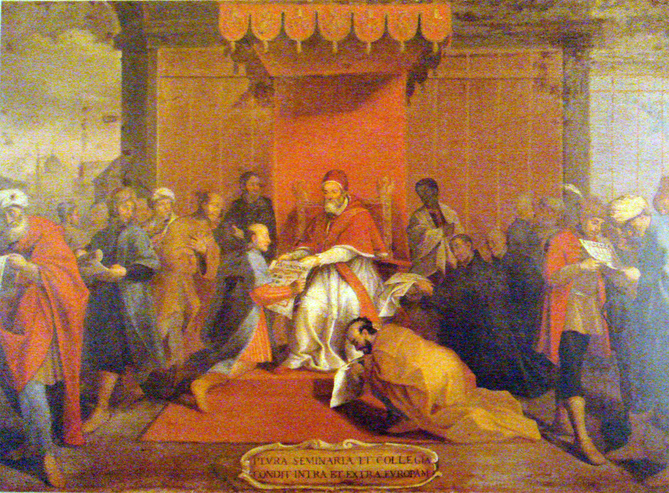 Japanese Delegates And Pope Gregory 13